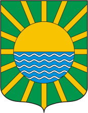 Yarovoye (Altay krai), coat of arms